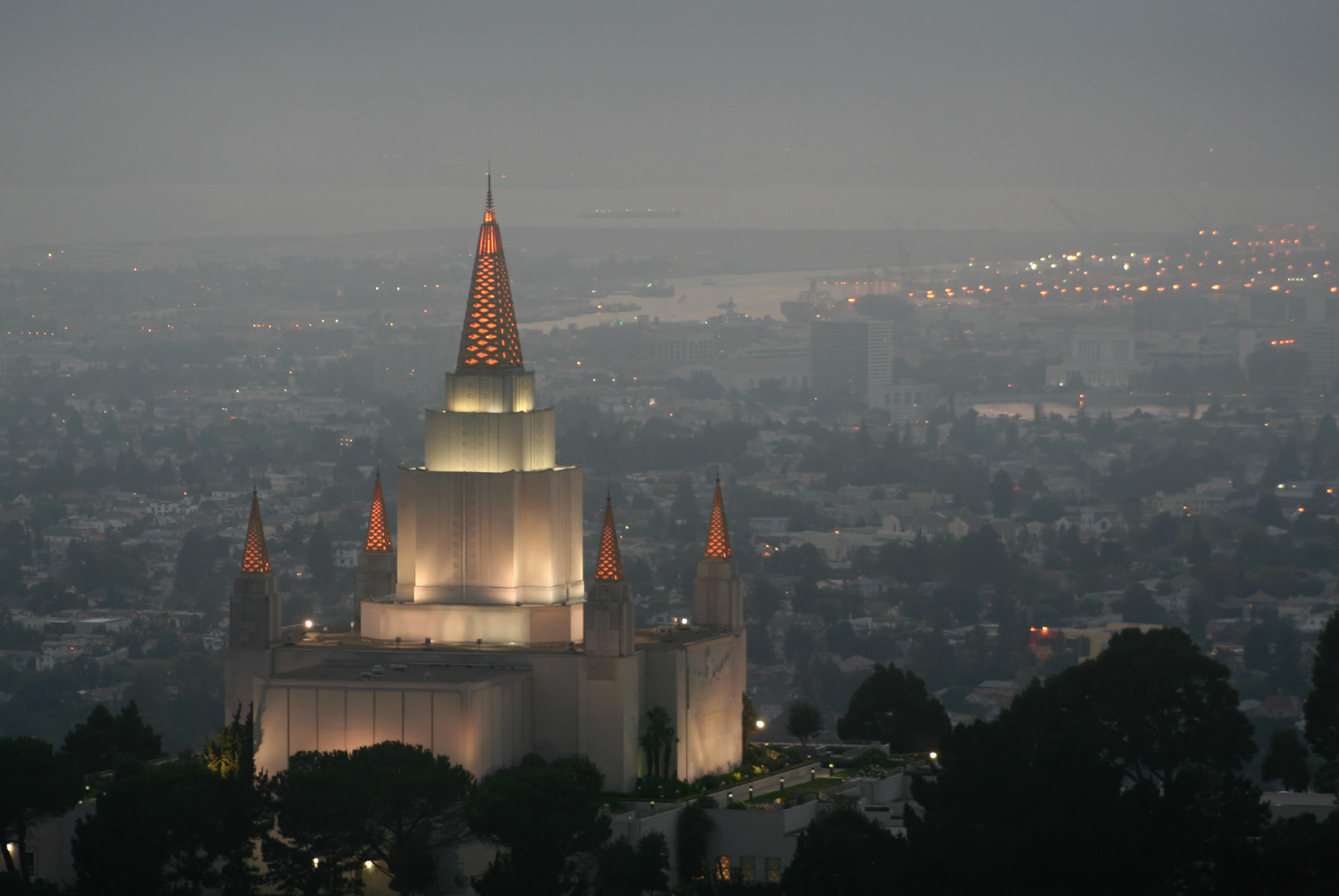 The Oakland California Temple of The Church of Jesus Christ of Latter-day Saints.